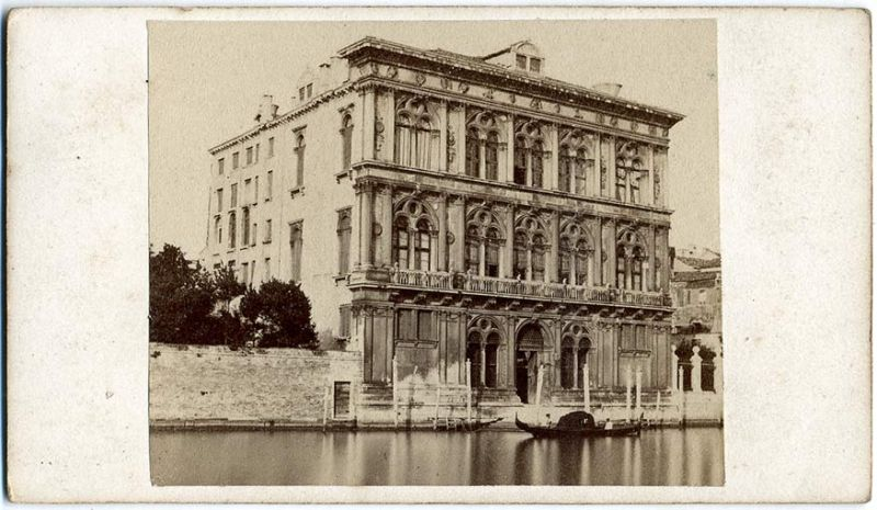 Carlo Naya (1822-1881) - Venice. Palazzo Vendramin. 1870s.